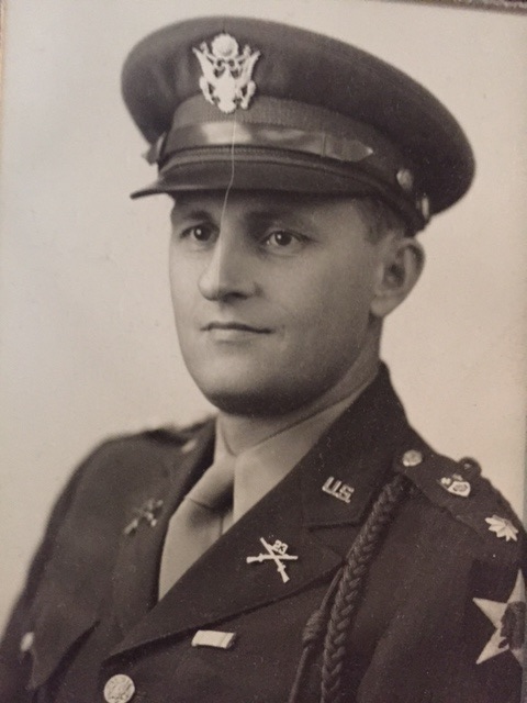 Colonel Matt Konop, pictured shortly after WWII This image is a work of a U.S. Army soldier or employee, taken or made as part of that person's official duties. As a work of the U.S. federal government, the image is in the public domain.